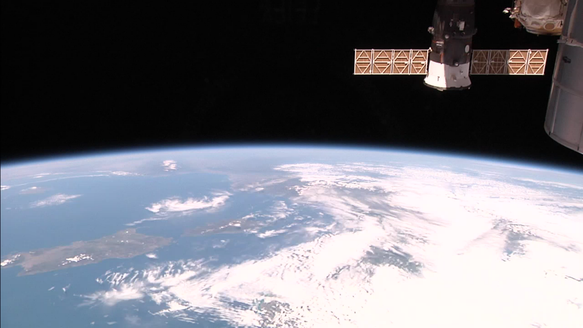 Screenshot from NASA High Definition Earth Viewing (HDEV) experiment videostream. The High-Definition Earth Viewing camera is mounted on the ISS. The picture shows clouds covering Italian peninsula. In the left part of the image Sardinia and Corsica are visible.